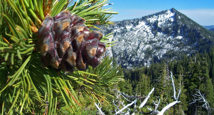 Whitebark Pine Pinus albicaulis on Russian Peak